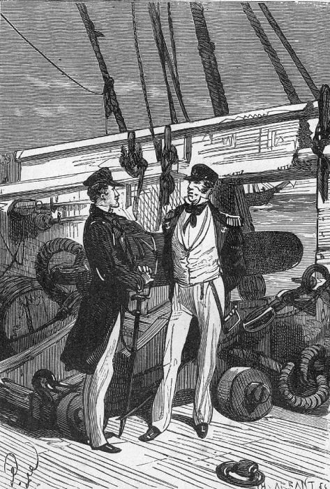 Illustration to Jules Verne's short story A Drama in Mexico (Un drame au Mexique), 1851